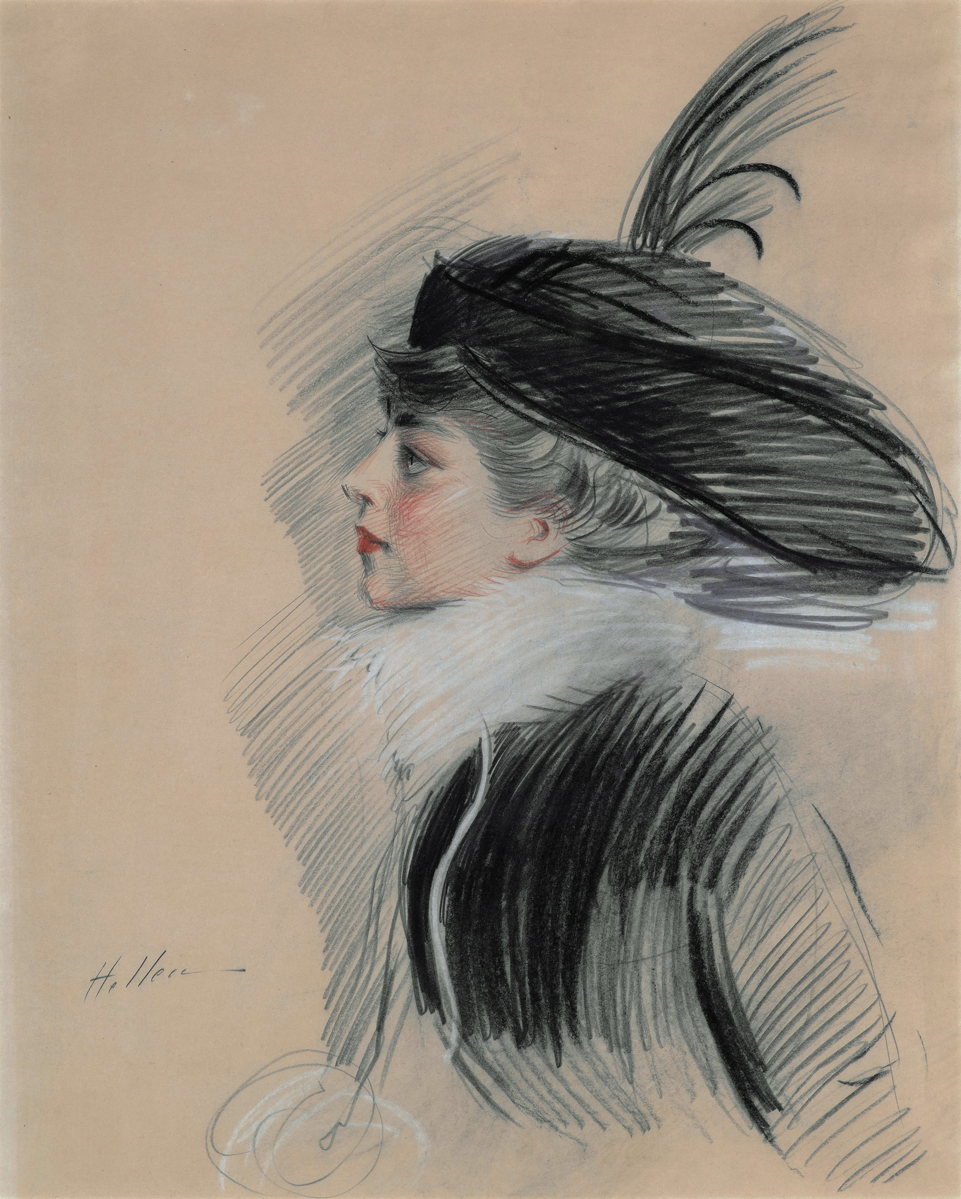 Belle da Costa Greene black and white chalk on paper 67.5 x 53.4 cm signed b.l.: Helleu 1913